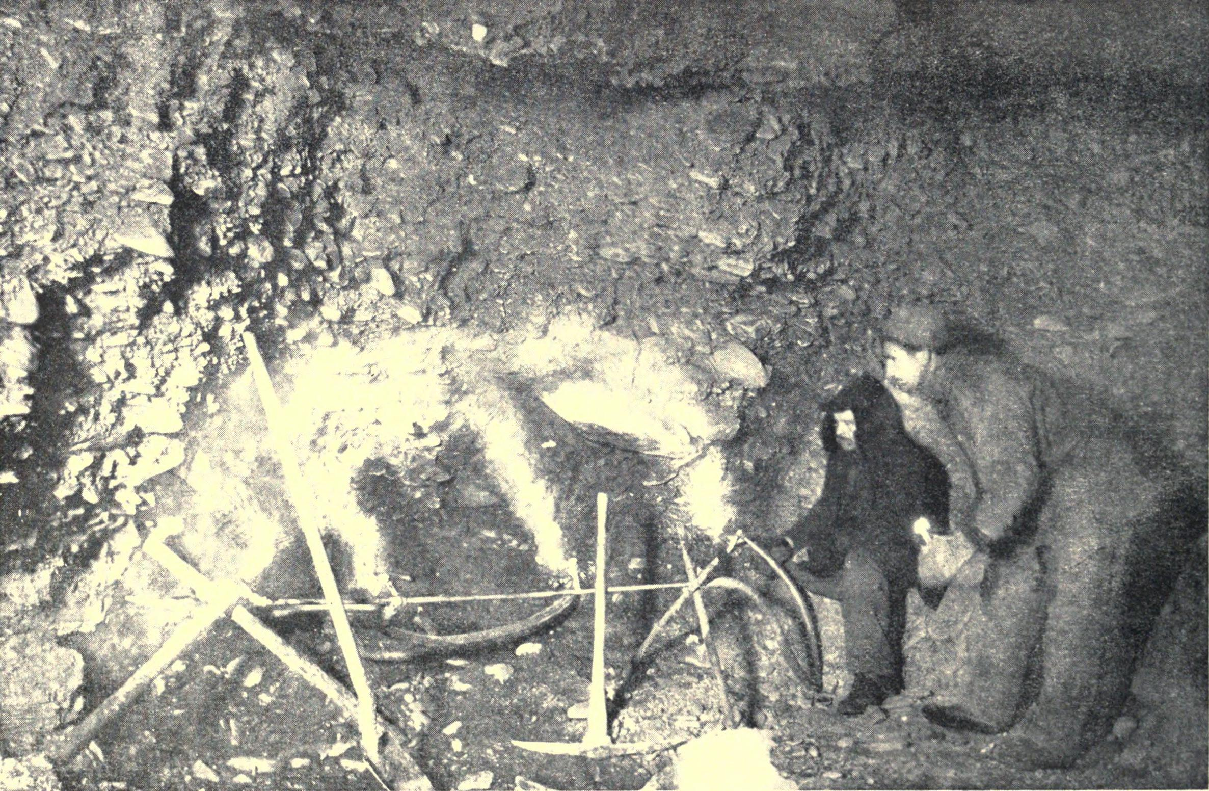 Steam points in place underground in a drift mine in permafrost. The steam thaws the frozen gravel, permitting it to be dug out and washed to recover the gold.